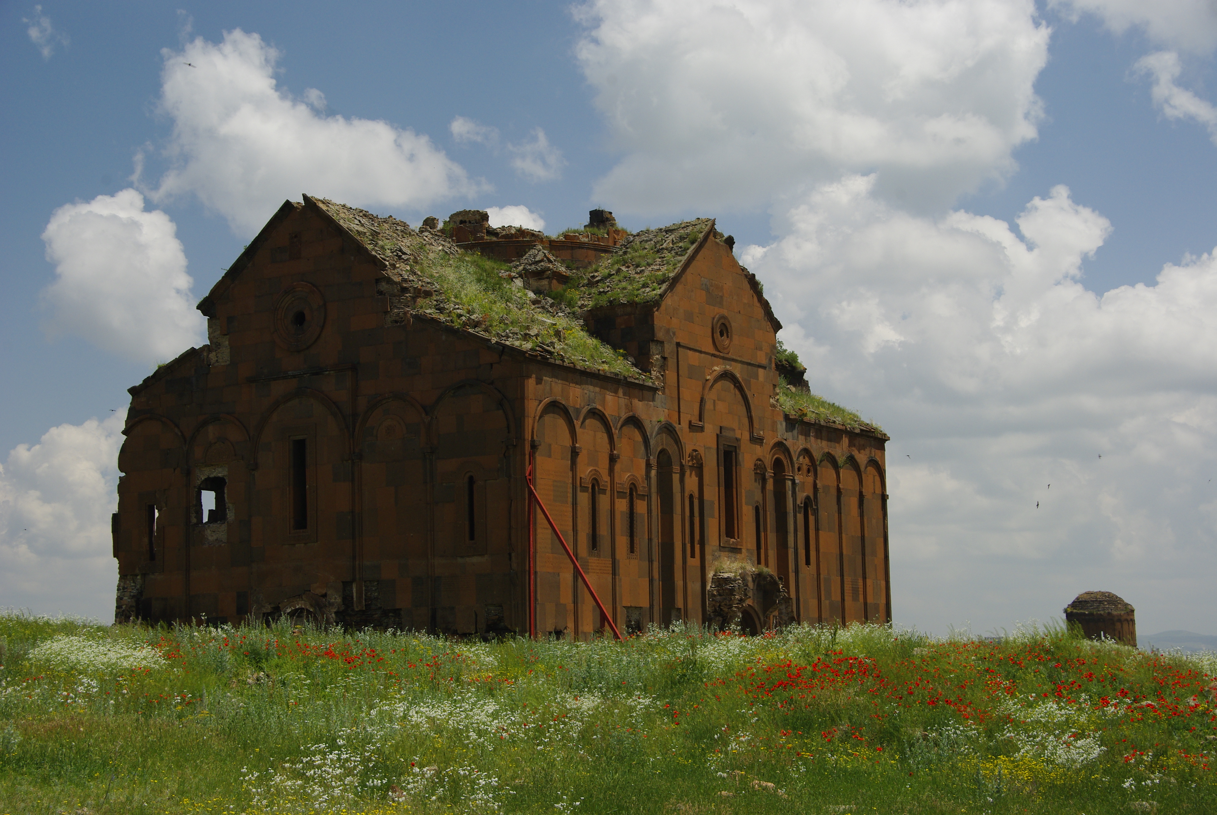 Cathedral of Ani